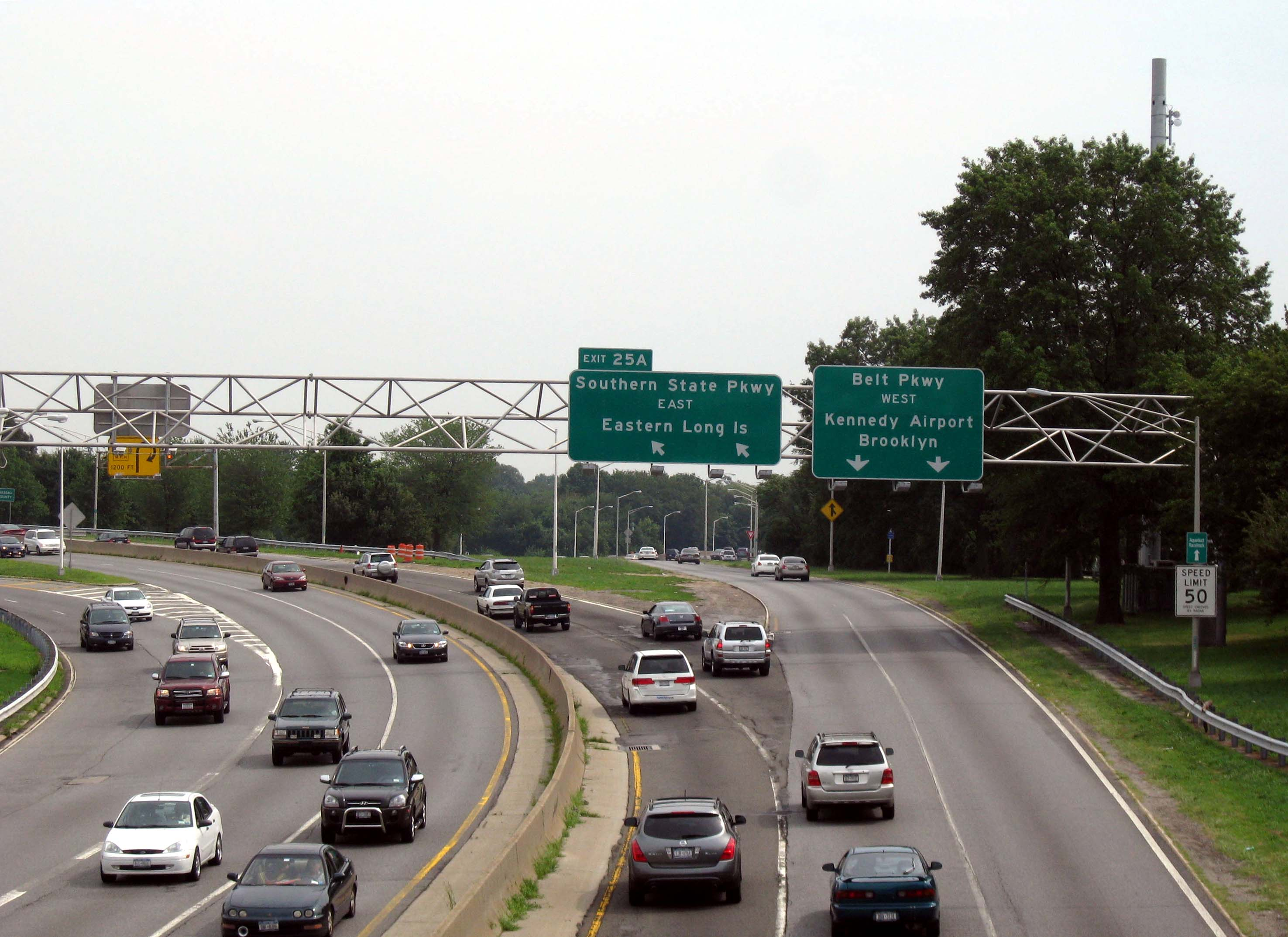 Looking south at exit 25a of Belt Parkway from Linden Boulevard overpass on a rainy early afternoon